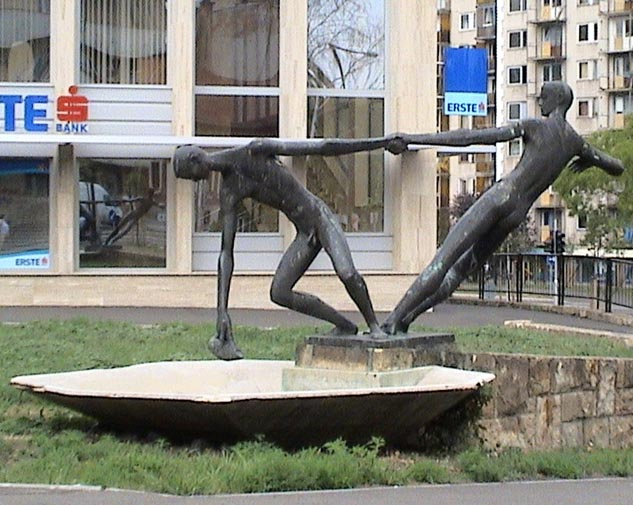 Statue Boys dipping water. – Sándor Kiss: Boys. Miskolc, Hungary